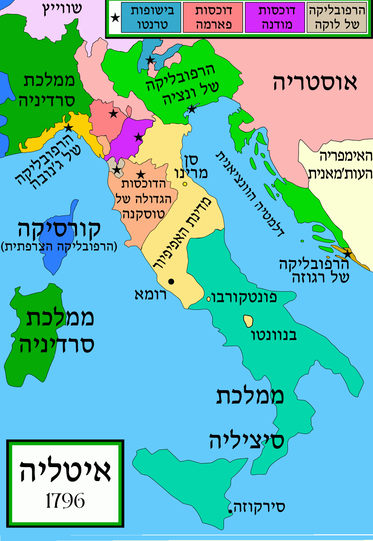 A political map of Italy in early 1796, before the Napoleonic wars, created by MapMaster. Other versions English Italiano Swedish Part of a series of maps: 1084 AD 1494 AD 1810 AD References Bjorklund, Oddvar; Holmboe, Haakon; Rohr, Anders (1970) Historical Atlas of the World, Barnes & Noble, NY, SBN: 389-00253-4. Other maps, including Image:Italy 1796.jpg from the Historical Atlas by William R. Shepherd, 1926.